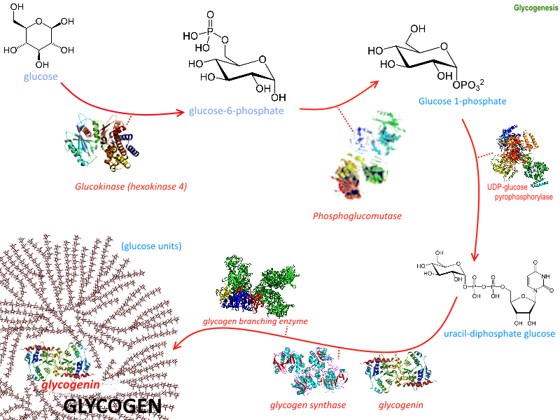 Glycogenesis